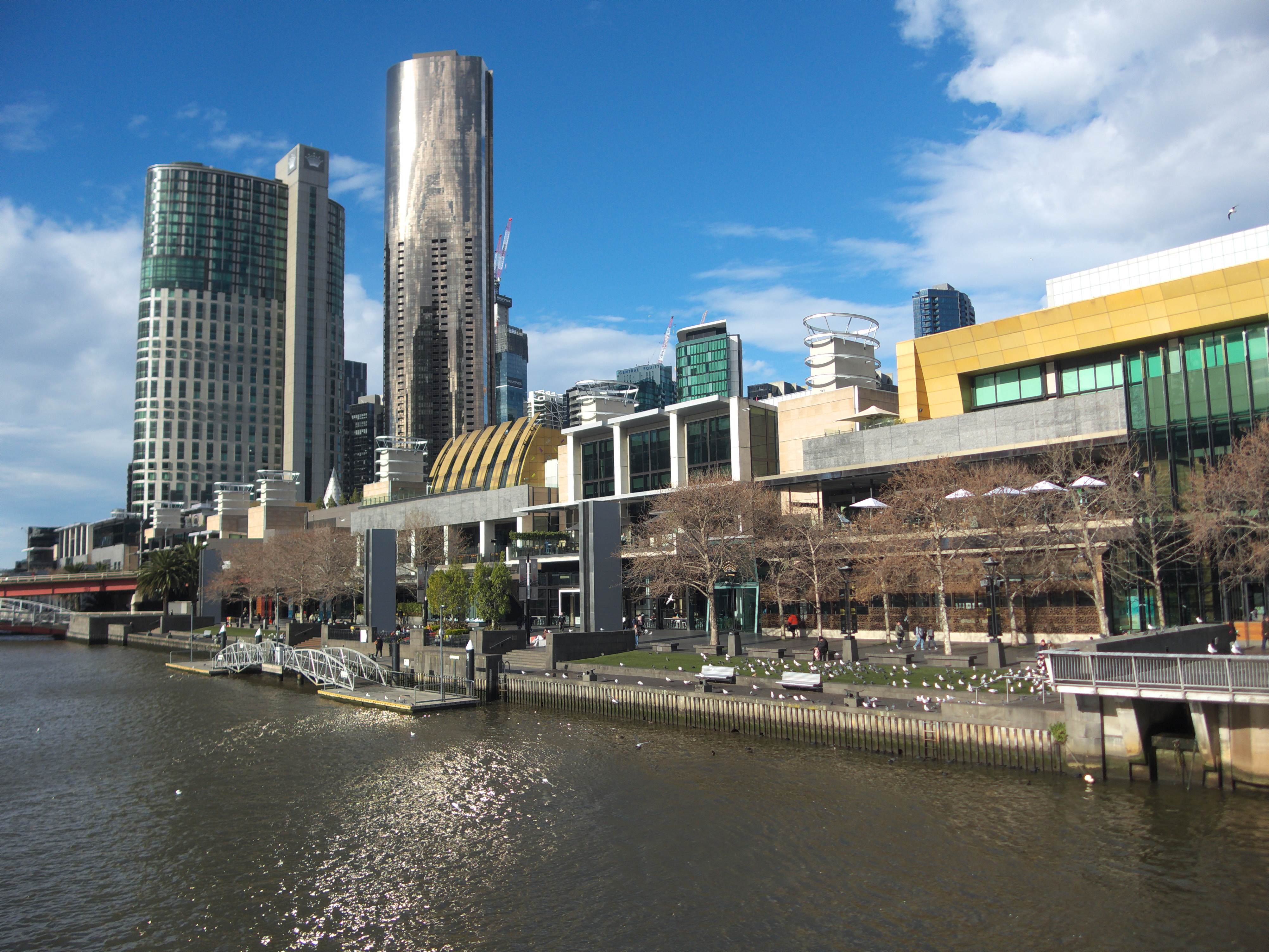 Crown Casino Complex, Melbourne, viewed from the Spencer Street bridge. The tall buildings are Crown Towers and Prima Tower.